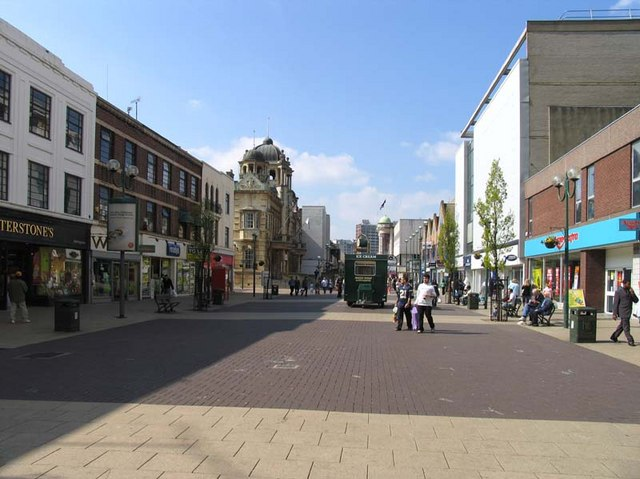 High Road, Ilford IG1 - Redbridge Town Hall